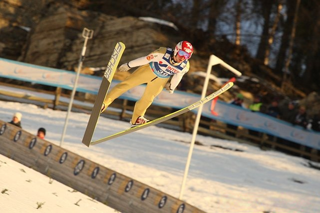 Robert Kranjec during saturday individual competition of FIS Ski-Flying World Championships 2012